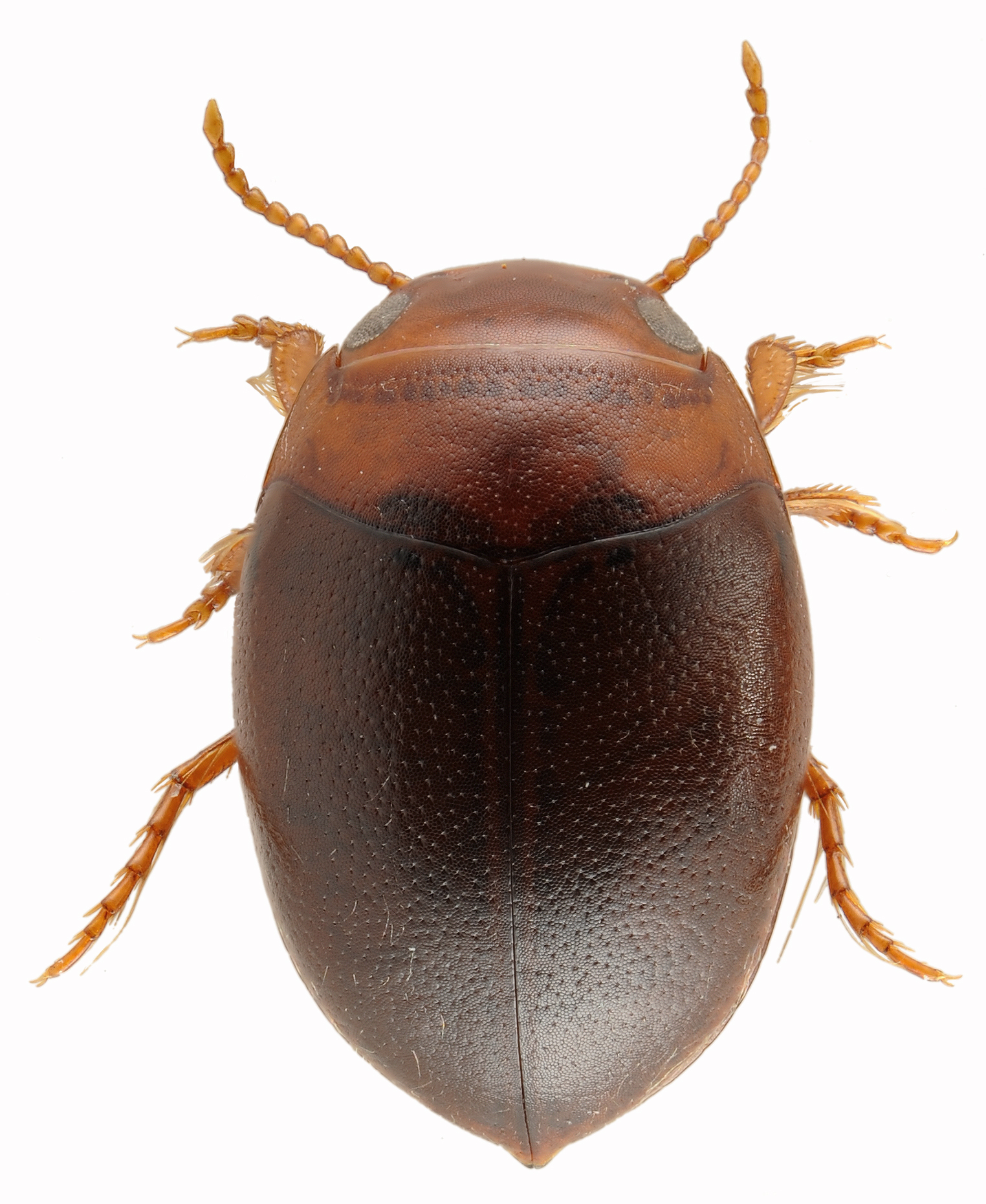 Dorsal habitus of Hydrovatus opacus (from New Caledonia)